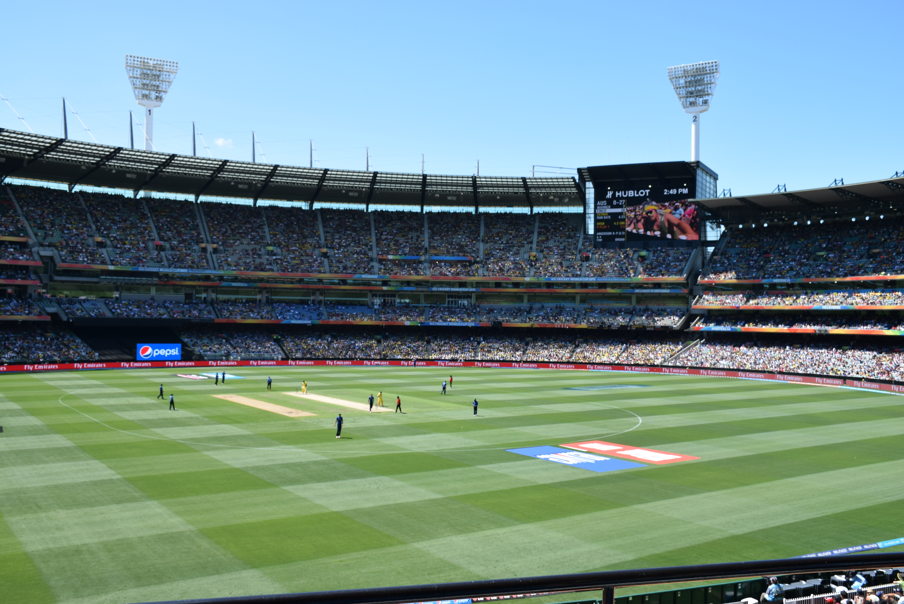 The opening match of the ICC Cricket World Cup at the MCG